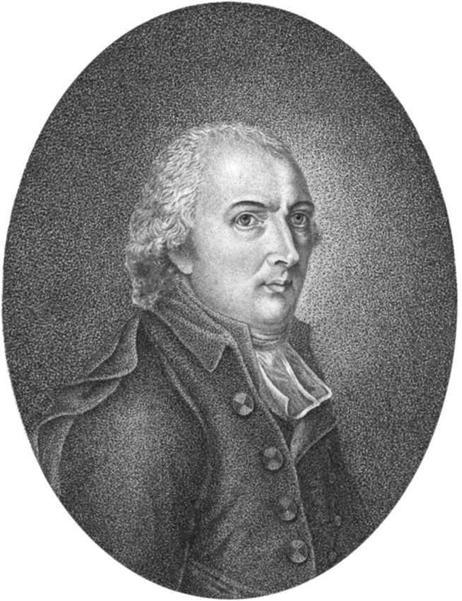 The protestant theologian, academic and author Heinrich Wilhelm Rotermund (1761–1848), copper engraving by Georg Heinrich Tischbein (1753?/1755–1848).